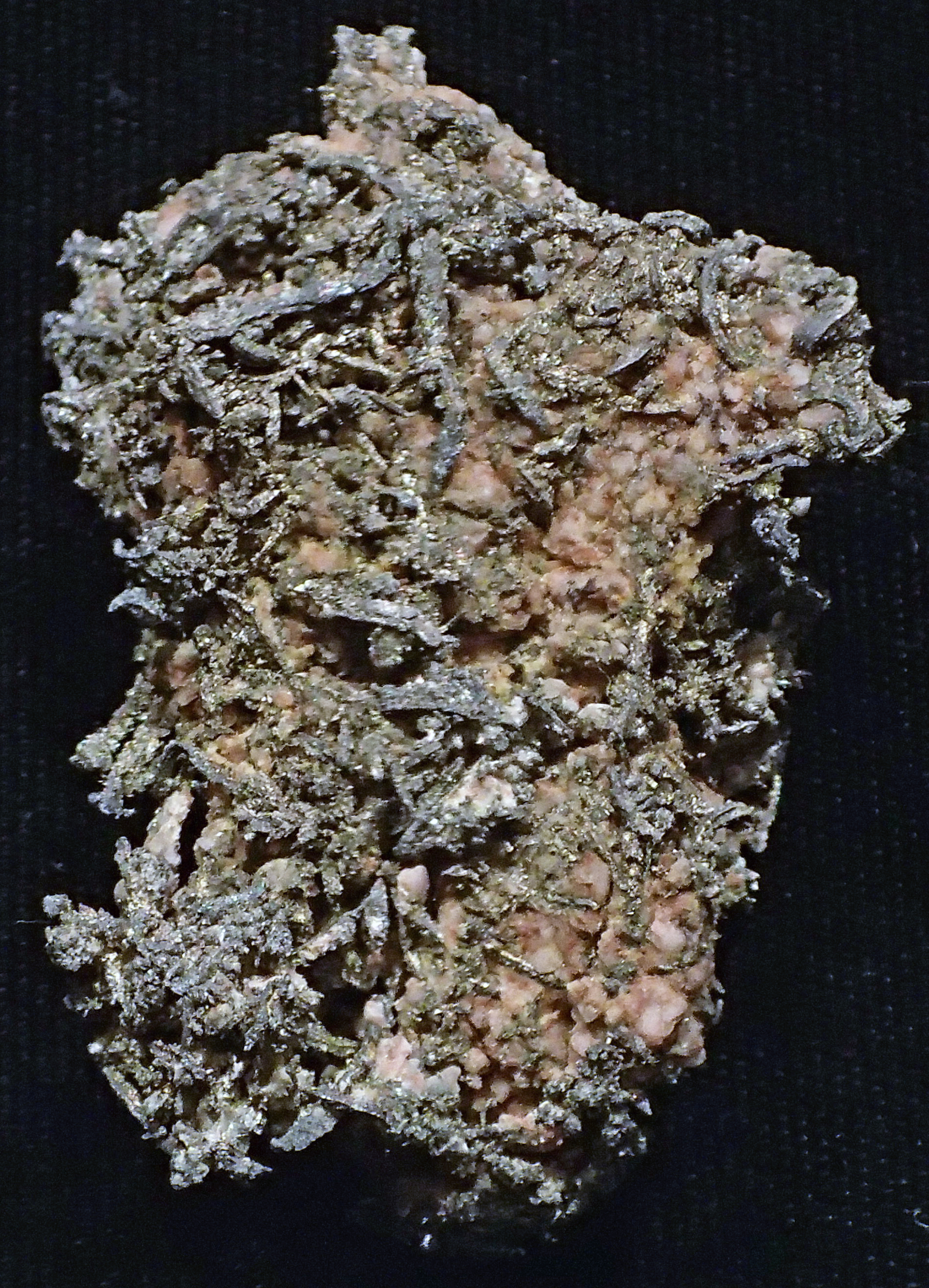 Native silver wires on granite matrix from Colorado, USA. (DMNH 8921, Denver Museum of Nature & Science, Denver, Colorado, USA) A mineral is a naturally-occurring, solid, inorganic, crystalline substrance having a fairly definite chemical composition and having fairly definite physical properties. At its simplest, a mineral is a naturally-occurring solid chemical. Currently, there are over 4900 named and described minerals - about 200 of them are common and about 20 of them are very common. Mineral classification is based on anion chemistry. Major categories of minerals are: elements, sulfides, oxides, halides, carbonates, sulfates, phosphates, and silicates. Elements are fundamental substances of matter - matter that is composed of the same types of atoms. At present, 118 elements are known (four of them are still unnamed). Of these, 98 occur naturally on Earth (hydrogen to californium). Most of these occur in rocks & minerals, although some occur in very small, trace amounts. Only some elements occur in their native elemental state as minerals. To find a native element in nature, it must be relatively non-reactive and there must be some concentration process. Metallic, semimetallic (metalloid), and nonmetallic elements are known in their native state as minerals. Silver is part of the gold-group of metallic elements. Silver is a precious metal, but is far less valuable than gold or platinum. Silver usually occurs as a silver sulfide mineral, but it also occurs in nature in its native state, often in the form of twisted wires. Silver is moderately soft and has a silvery-white color on fresh surfaces that tarnishes to darker colors. Elemental silver in nature is often found alloyed with other metals. Naturally alloyed gold-silver is called electrum. Locality: Smuggler Mine, Aspen Mining District, Pitkin County, Colorado, USA